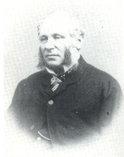 Dr William Haines, Premier of Victoria, Australia, Nov 1855 - Mar 1857, Apr 1857 - Mar 1858.